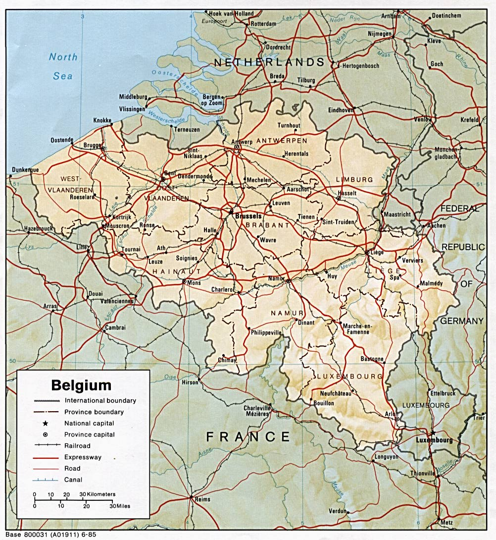 Map of Belgium, with shaded relief.